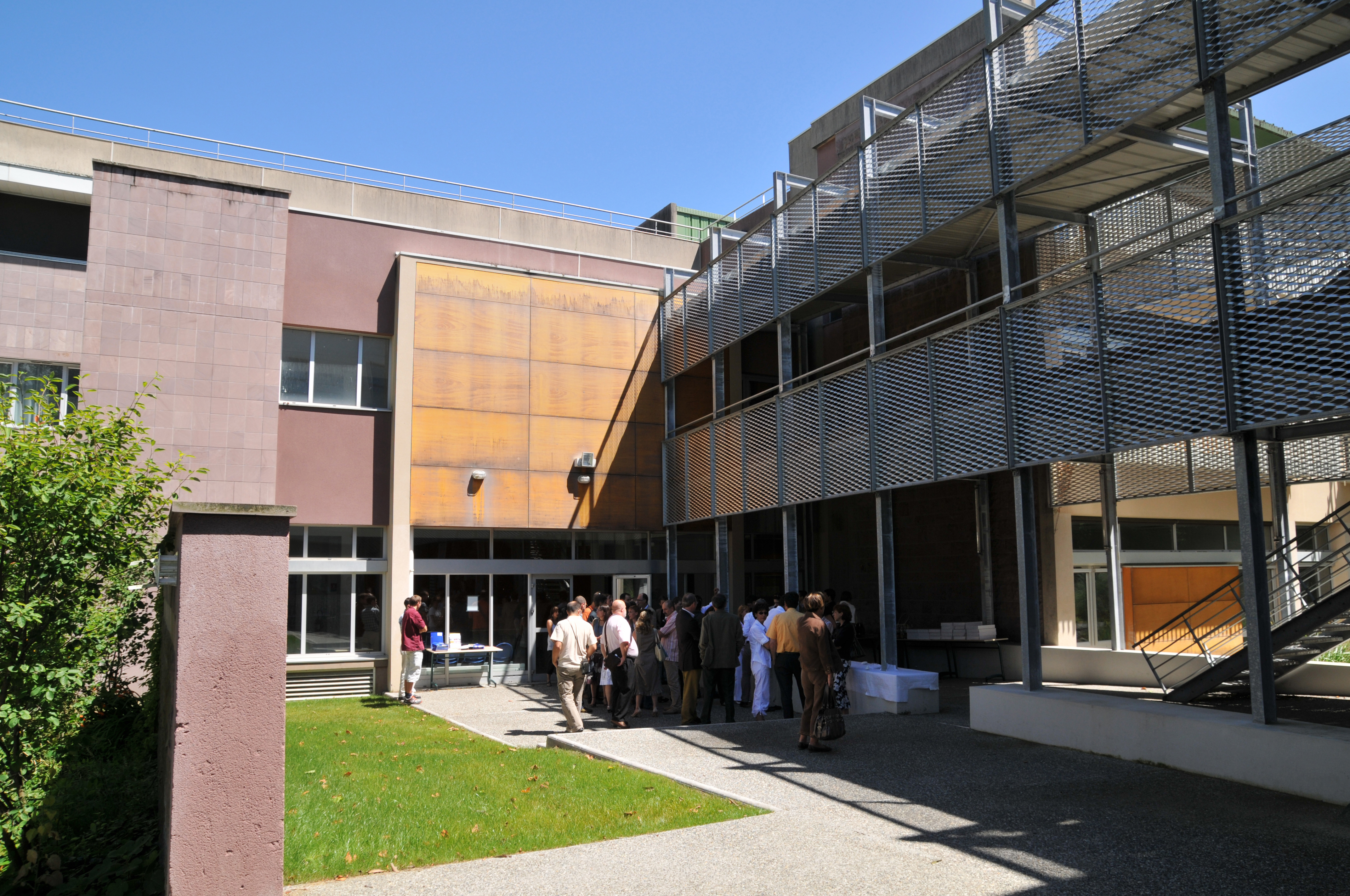 University Parc Montaury Anglet UFR Sciences et Techniques Côte Basque UPPA Université Pau et Pays de l'Adour 64600 FRANCE